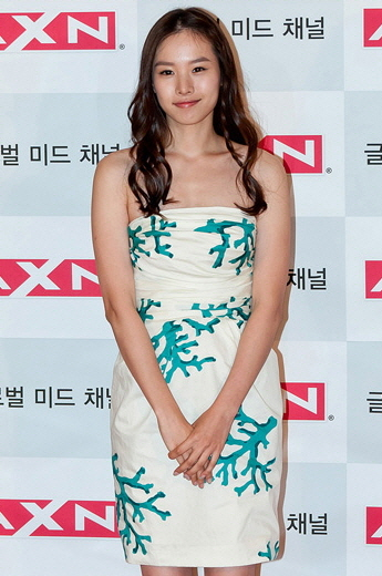 Jo Yoon-hee at AXN Korea launching event, Gangnam, Seoul, in April 2011